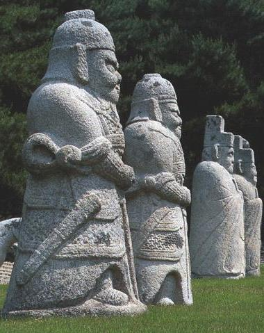 Stone statues General and Scholars in front of the royal tomb King Taejong (Naegok Seocho, Seoul of Korea)